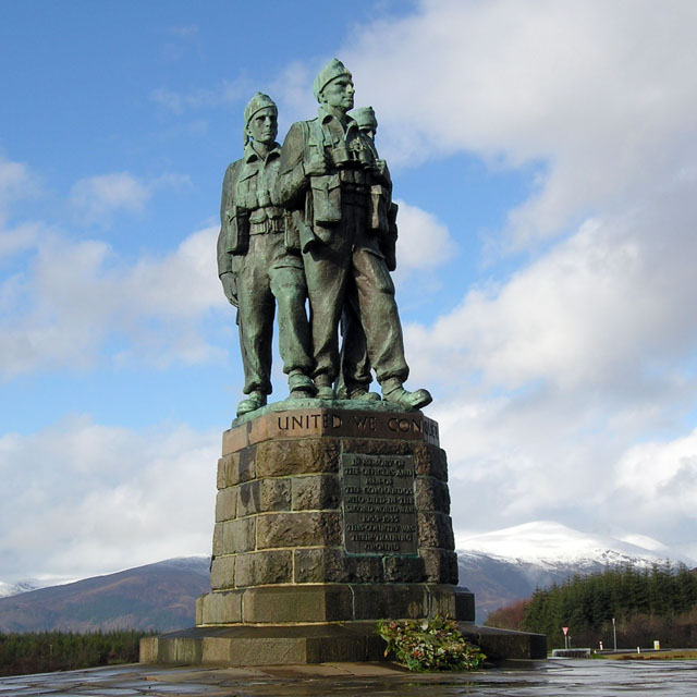 Commando Memorial near Spean Bridge, near to Highbridge, Highland, Great Britain. This area was their training ground in World War Two. The Regiment was raised at the request of the then Prime Minister, Winston Churchill. Commandos from all over, still come here on the eleventh day of the eleventh month by way of a Pilgrimage of Remembrance. A few years ago, the Commando Association was given the Freedom of Fort William and Lochaber.